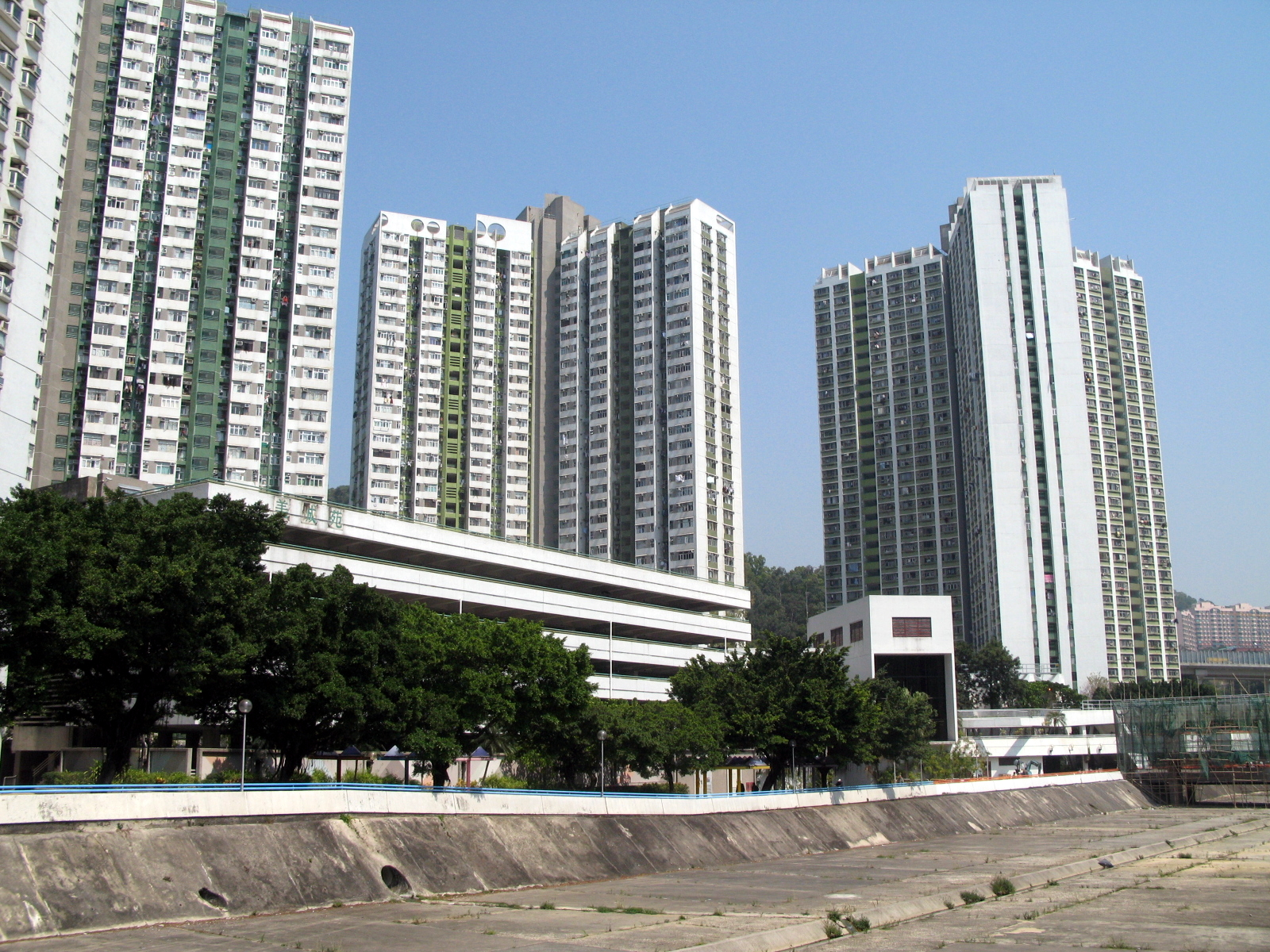 Housing estates in Hong Kong. From left to right: Yat Shing House (May Shing Court), Fai Shing House (May Shing Court), Mei Wai House (Mei Lam Estate Plase 2)